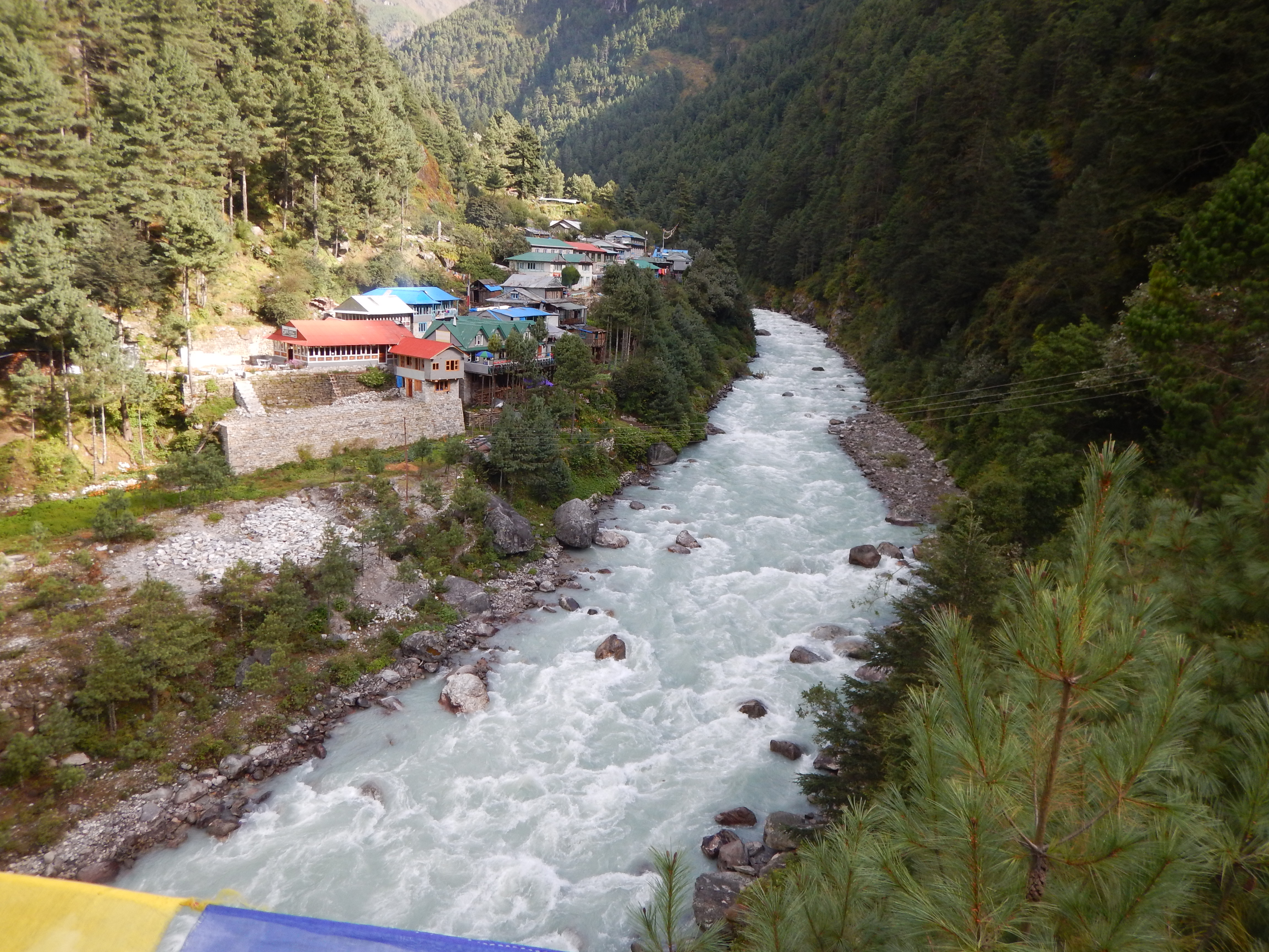 The village of Jorsale and the river Dudh Kosi - Nepal